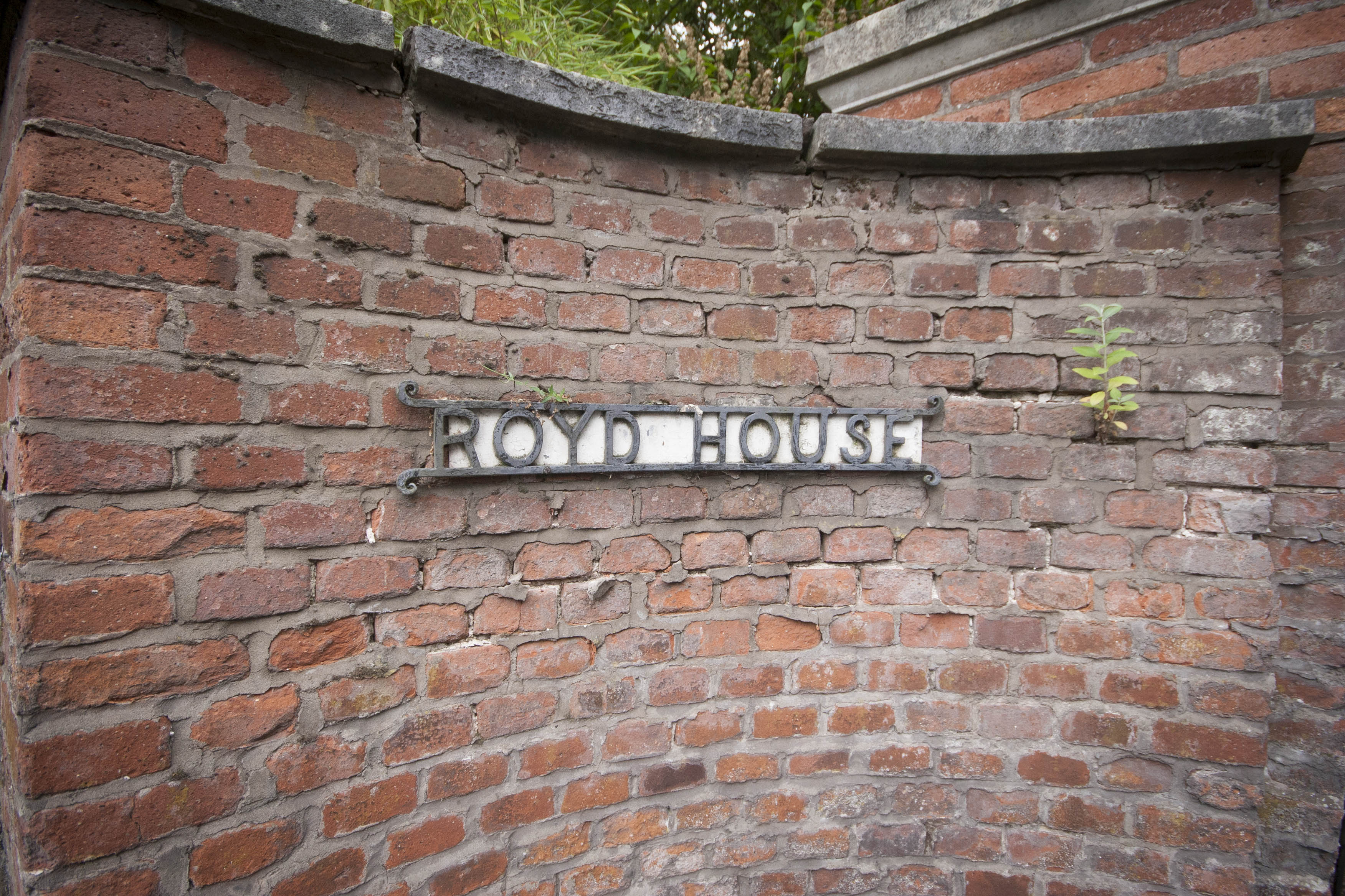 Signpost outside Royd House. Property is gated and private, I considered it inappropriate to shoot anything more than this. Permission of owner would be required to shoot more detail, I think.